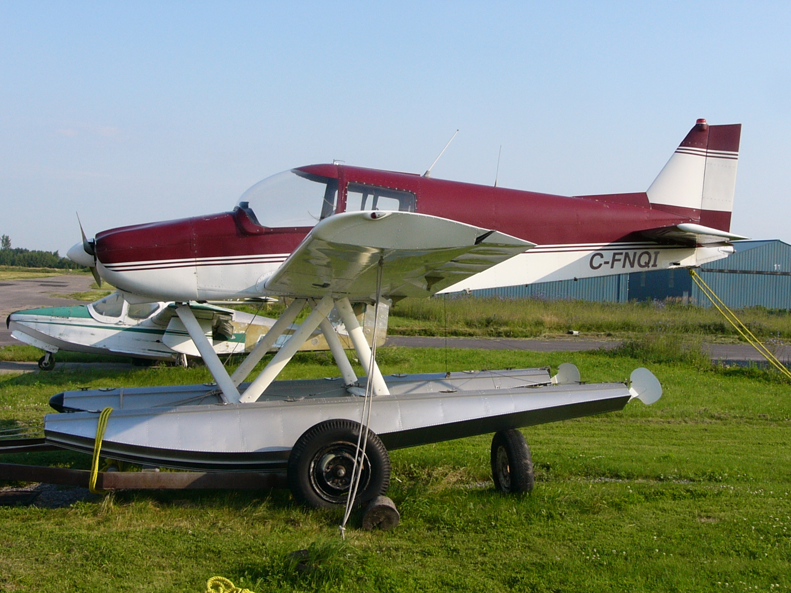 Zenair Ch 300 on floats at the Arnprior Fly-in